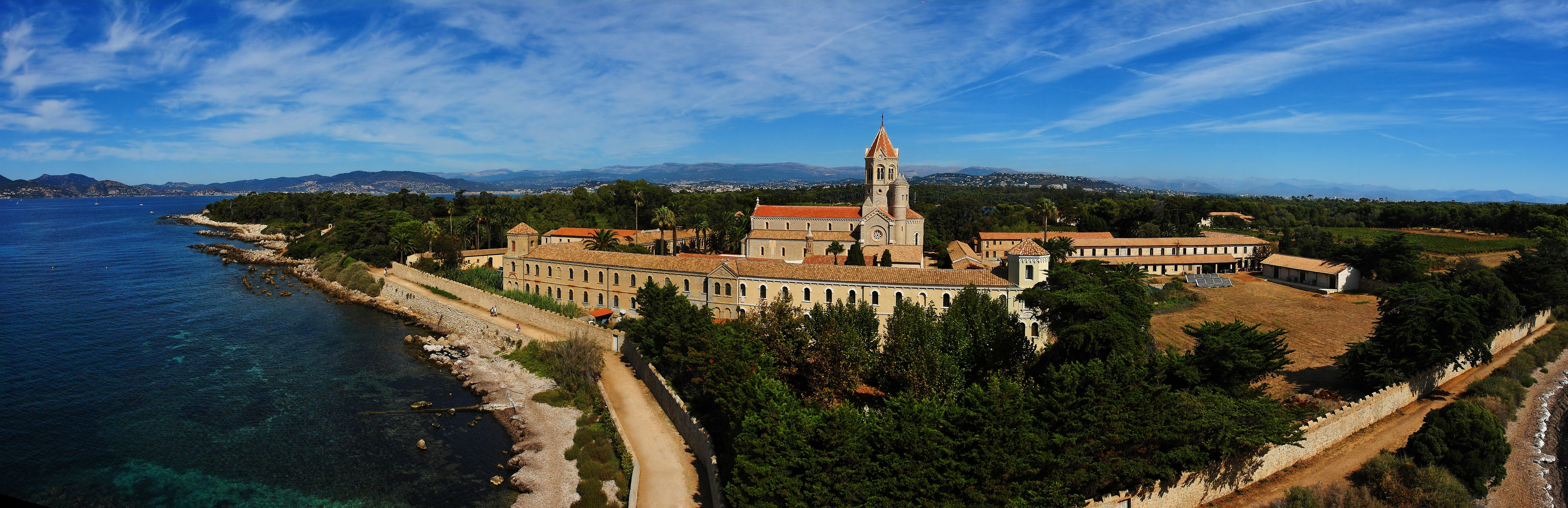 Church and monastery of the Lérins Abbey, on the island of Saint-Honorat, one of the Lérins Islands, close to Cannes. Obtained after stiching 8 pictures, post-processing to reduce noise in the background.